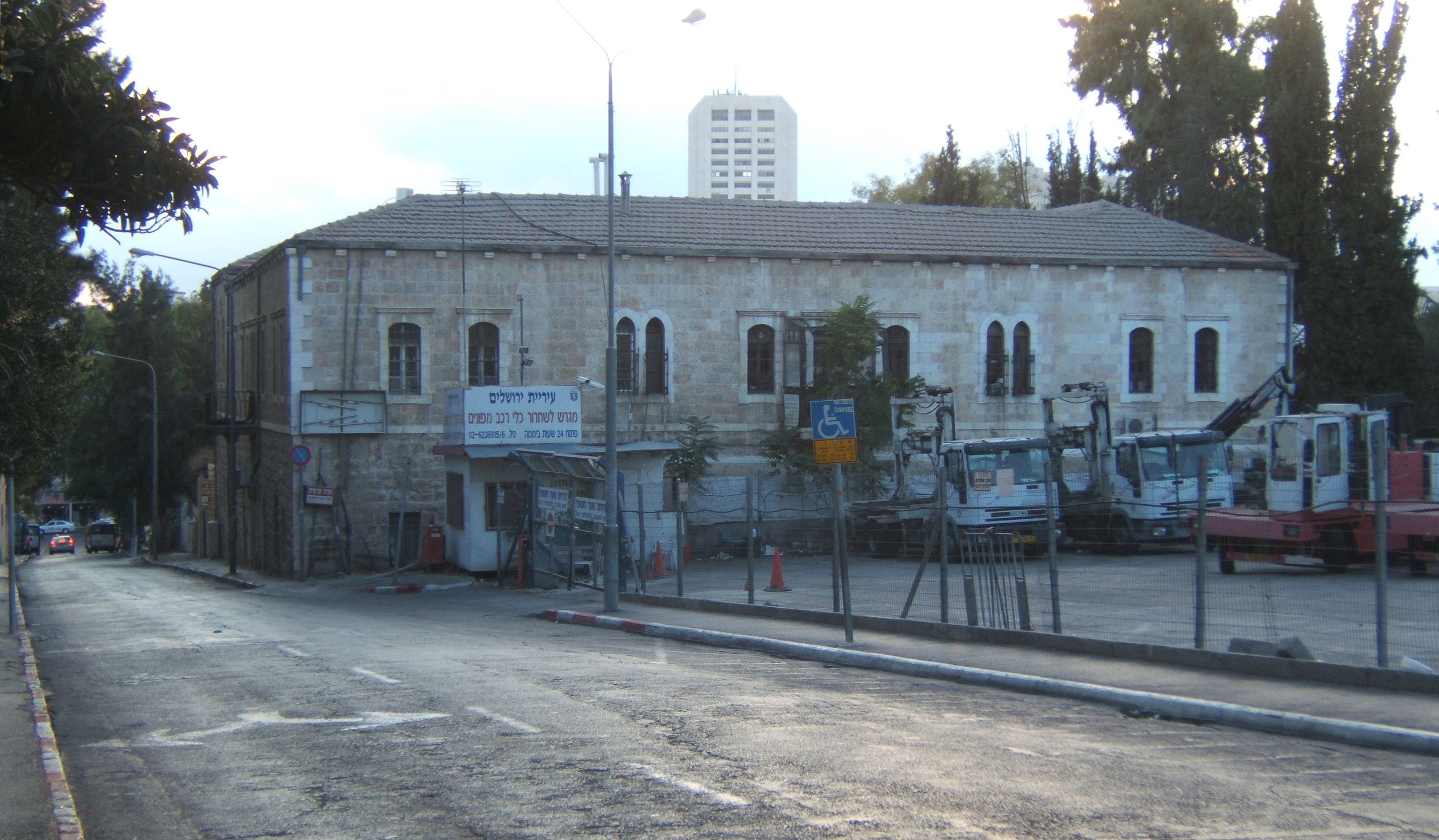 Rabi Kook house, near Street of Propehts, Jerusalem